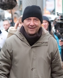 Pascal Chaumeil in Moscow on the set of the "Fly me to the Moon"